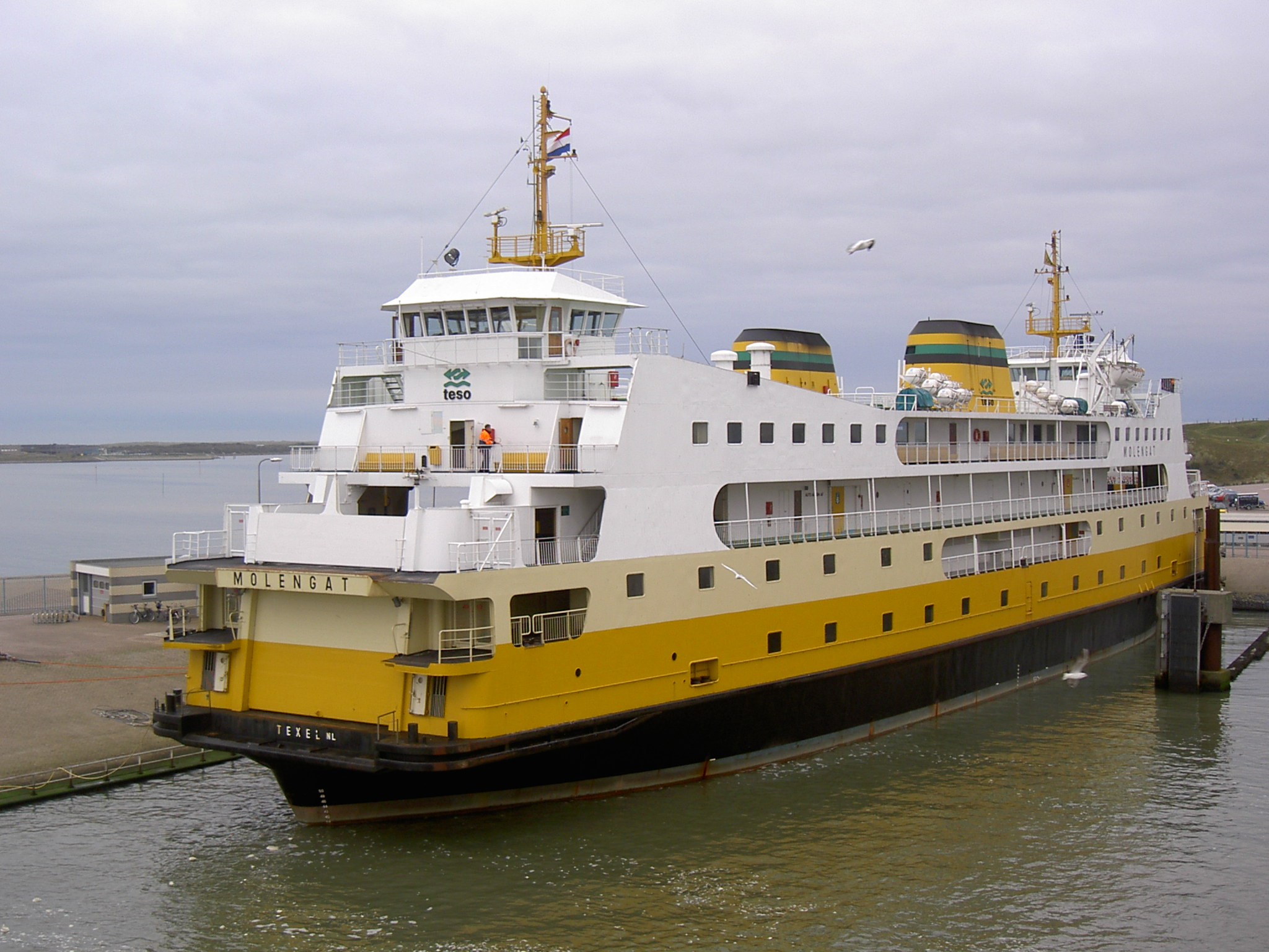 former ferryboat "Molengat" 2004 at the then home harbour on the Netherland's island Texel